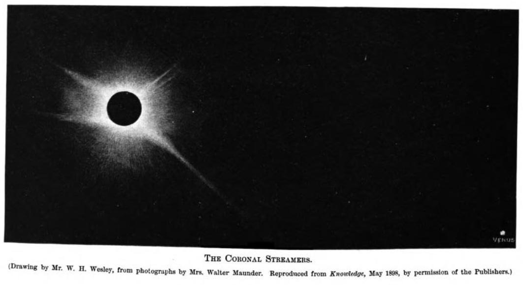 Solar eclipse of January 22, 1898 wide view with Venus